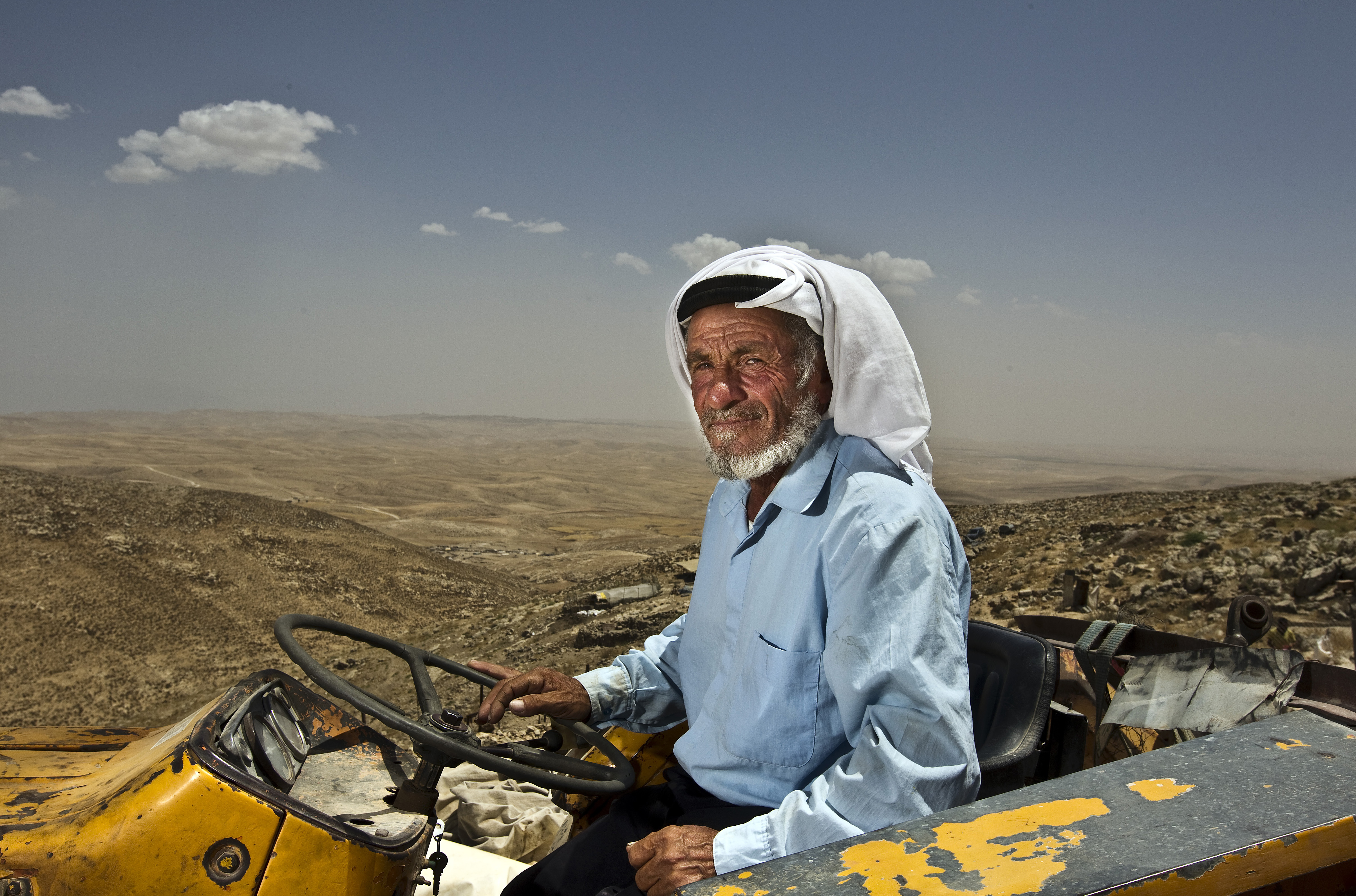 Ismail Adraa, a Palestinian from the Bedouin village of Bir El-Idd in South Hebron Hills, which has been under threat of demolition. The expansion of illegal Israeli settlements in the region has seen many Palestinian communities lose land. (Photo: Mark Condren)